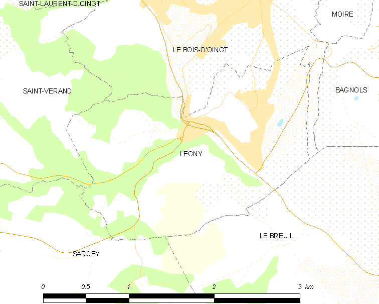 Map of French municipality